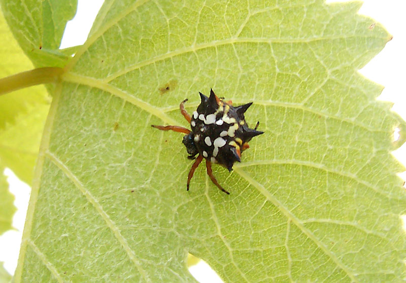 Australian Jewel Spider Austracantha minax